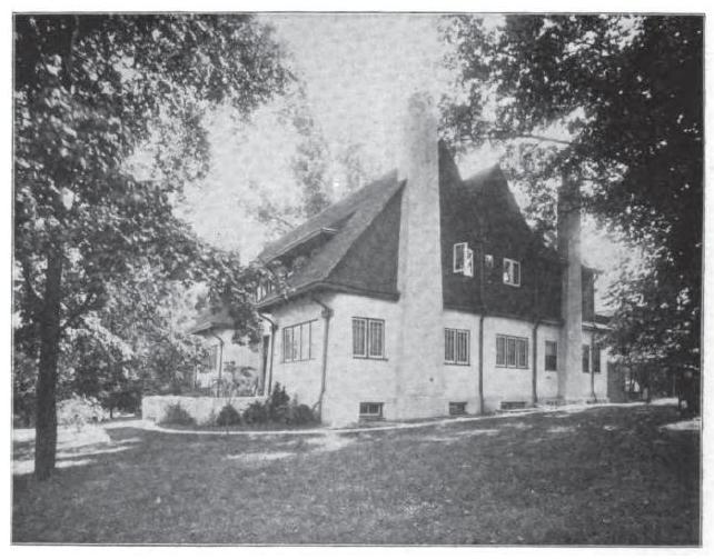 Home of Rudolph Tietig in Cincinnati, Ohio, United States, designed by Tietig and Lee.